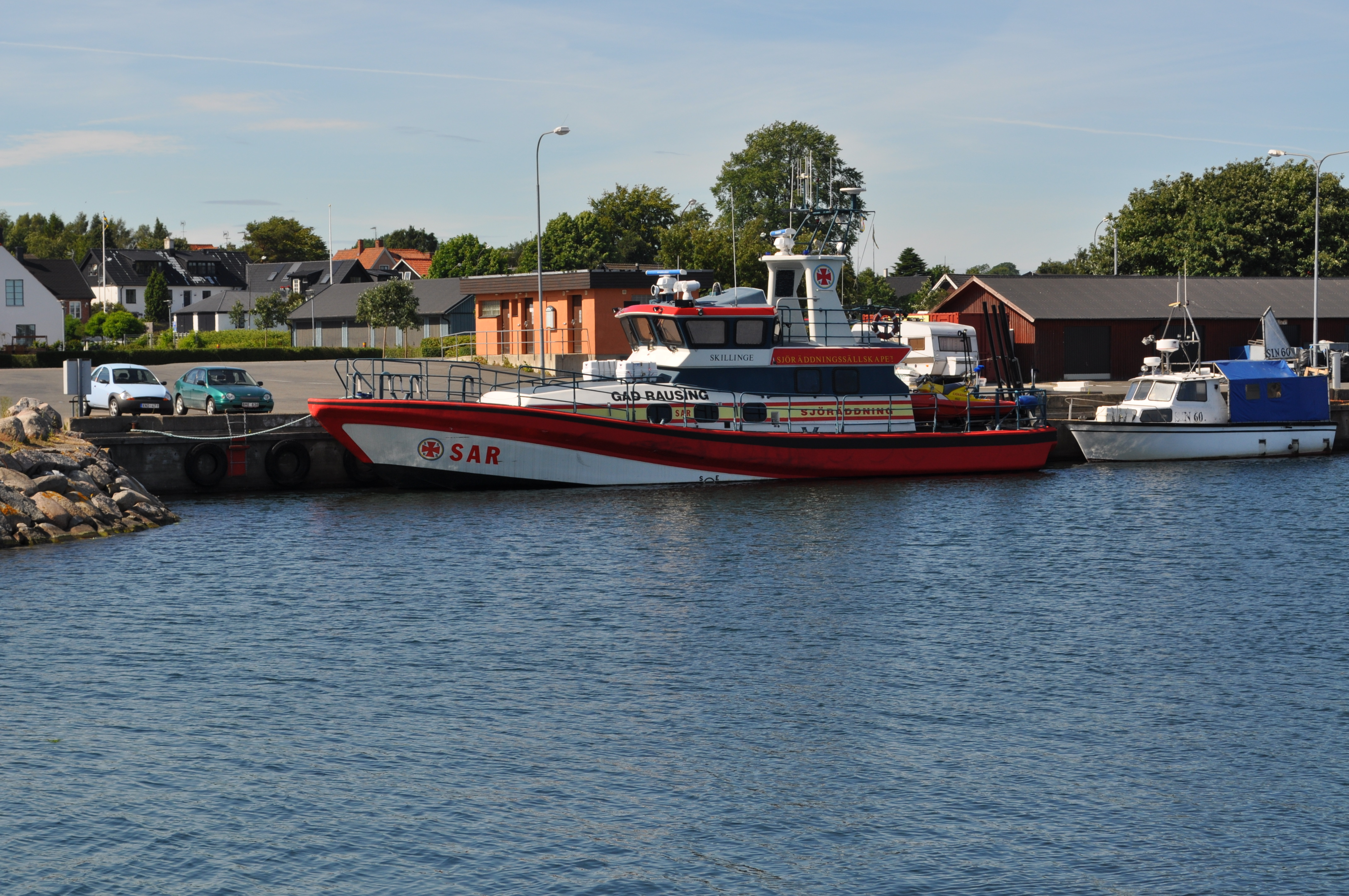 Sjöräddningskryssen Gad Rausing - Skillinge